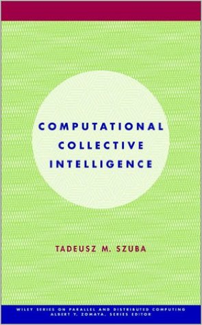 Computational collective intelligence